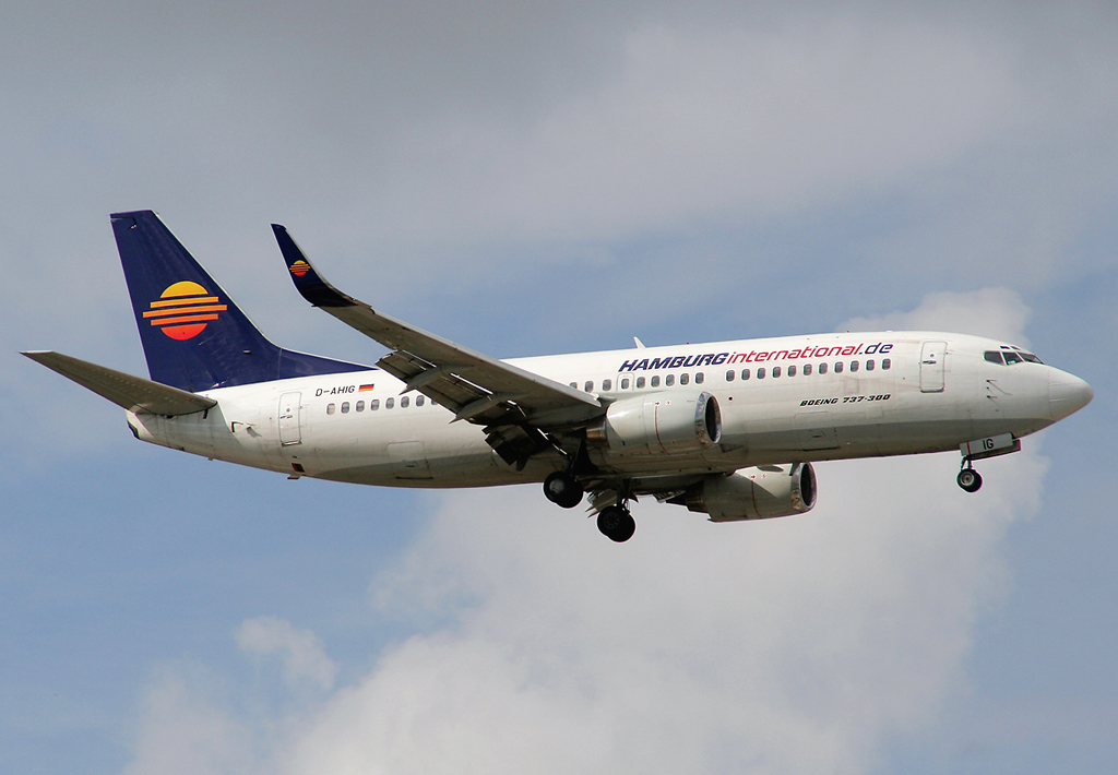 Hamburg International Boeing 737-300 D-AHIG lands in Antalya